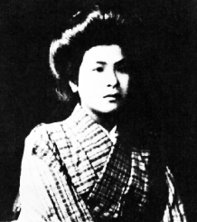 Ito Noe, Japanese anarchist and feminist